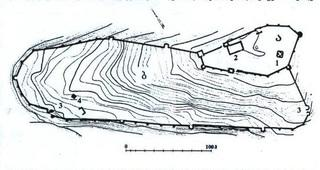 Kvetera fortress plan